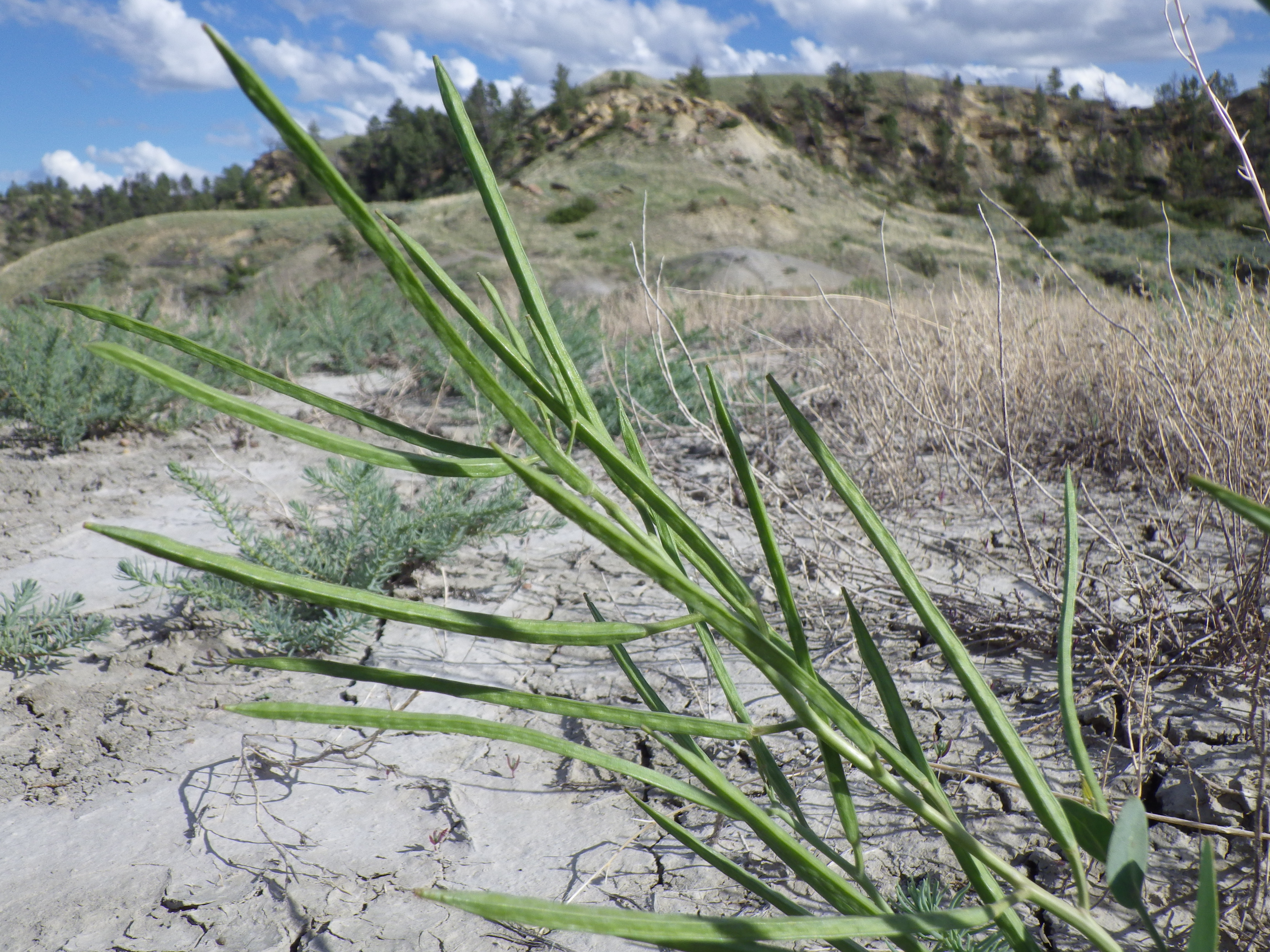 Generally the fruits persist in an immature condition but occasionally they reach maturity and display a 4-angled construction (quadrate in cross-section).